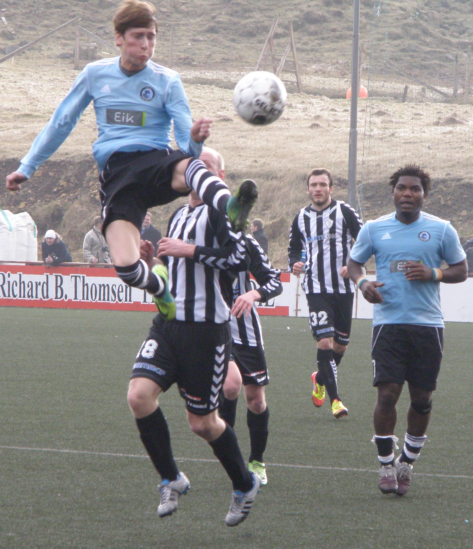 Football match in Effodeildin on 25 March 2012 between TB Tvøroyri and Víkingur Gøta. Víkingur won the match 2-0. This was TB's first match in the best Faroese football division in 7 years, after being relegated in 2005 they got promoted again after the end of the 2011 season. Føroyskt: Fótbóltsdystur millum TB og Víking í Effodeildini 2012. Víkingur dystin 2-0. TB hevði heimavøll í Vági, tí nýggi vøllurin hjá teimum var ikki liðugur.